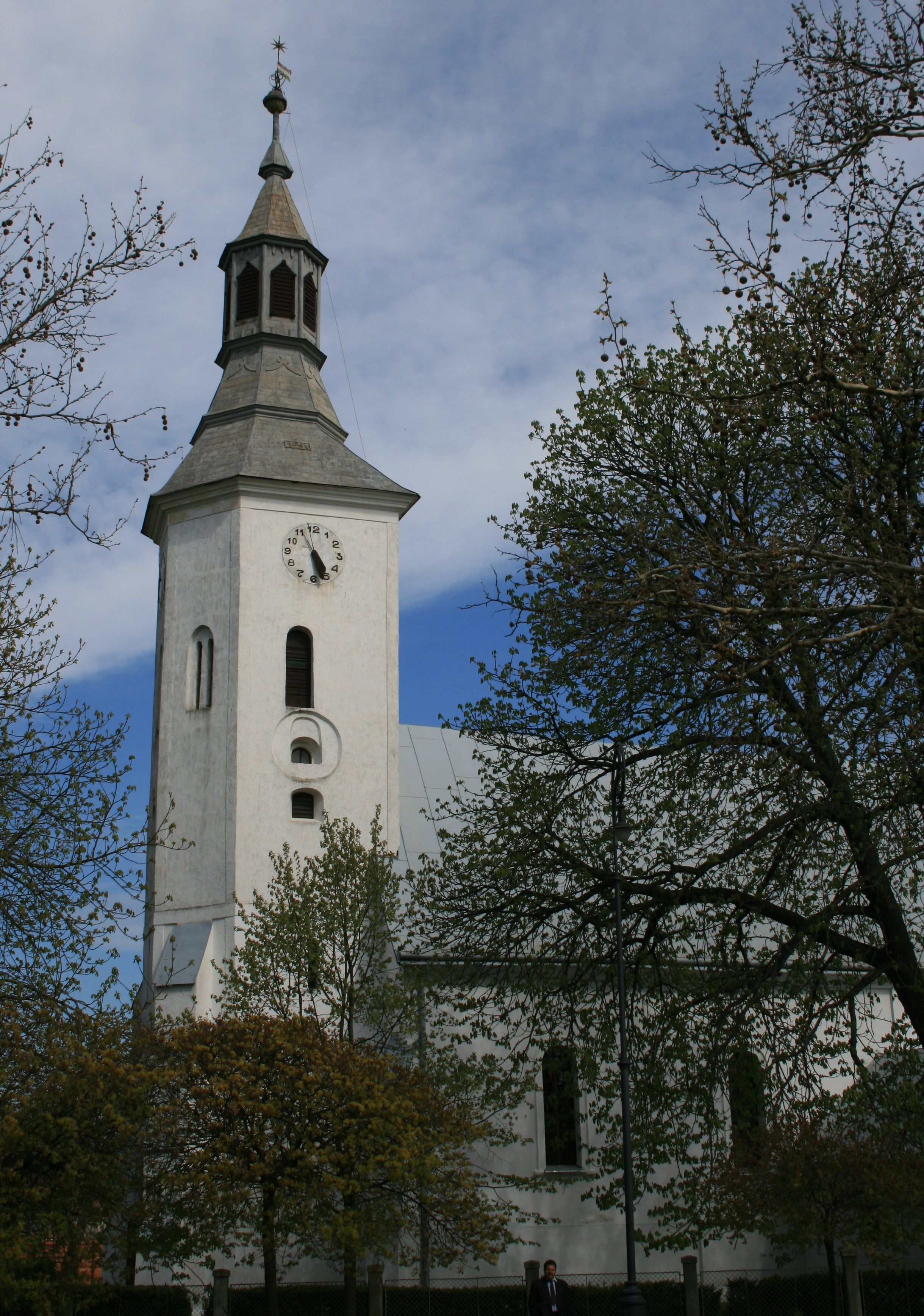 Reformed church in Mátészalka, North-Eastern Hungary, from the end of the 19. century.